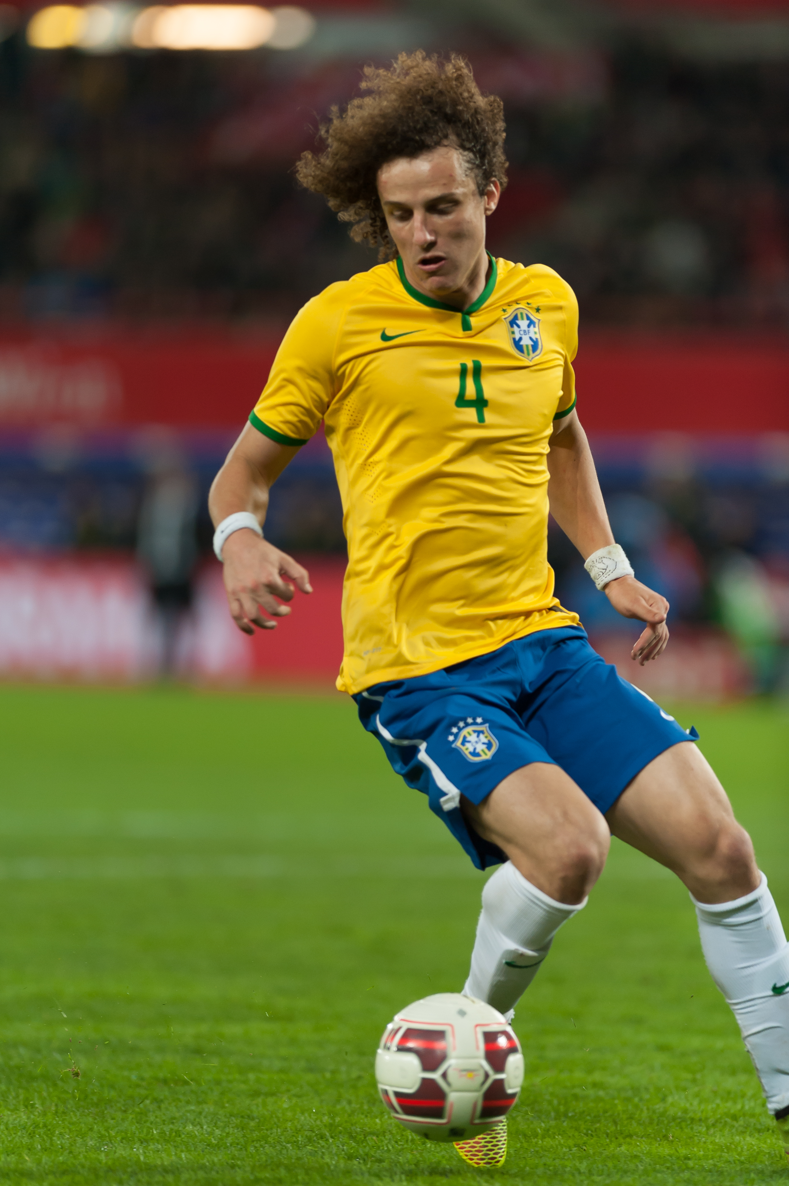 International Friendly Austria - Brazil November 18, 2014: David Luiz